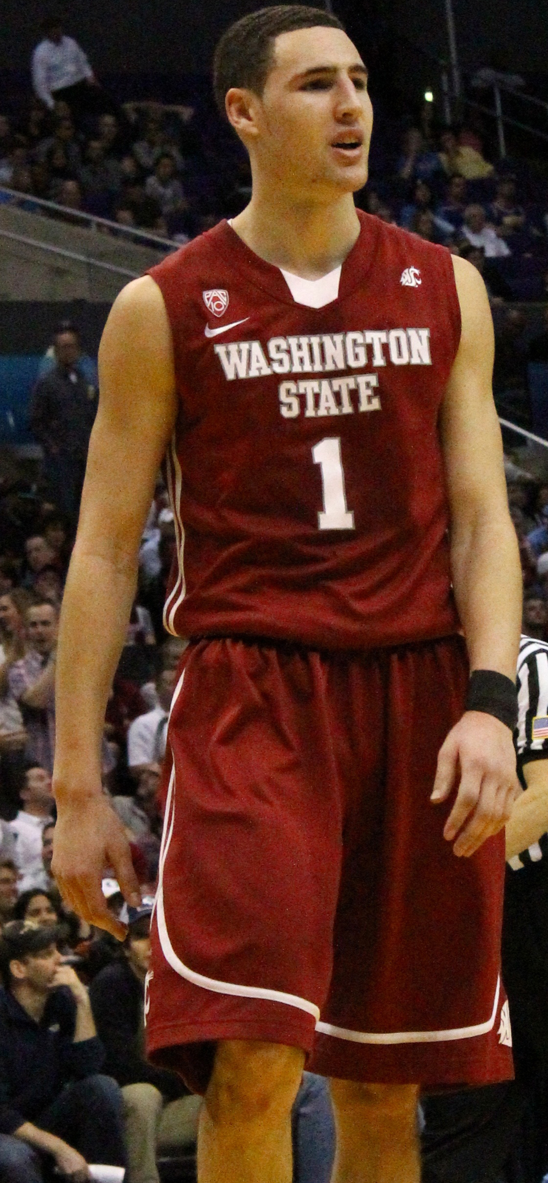 Klay Thompson playing for Washington state